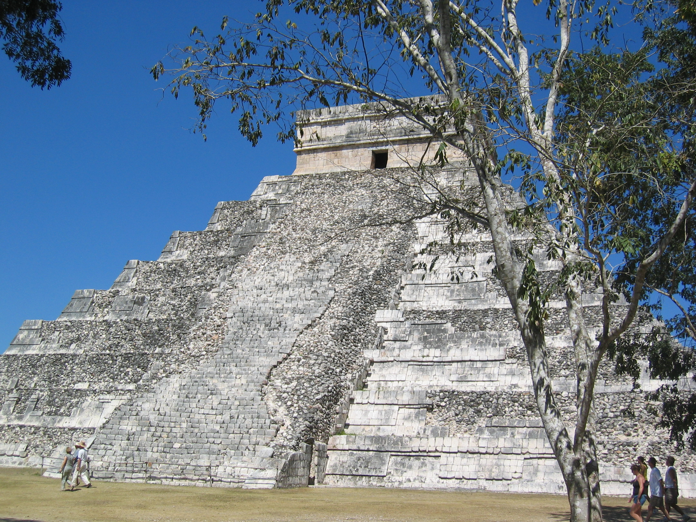 Chichén Itzá, MexicoChichen Itza ruins in Mexico